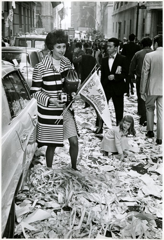 Accession Number: 2007:0275:0060 Maker: James Jowers (American b. 1938) Title: Wall st. Date: 1969 Medium: gelatin silver print Dimensions: Image: 23.9 x 16.1 cm Overall: 25.3 x 20.1 cm George Eastman House Collection General – information about the George Eastman House Photography Collection is available at For information on obtaining reproductions go to